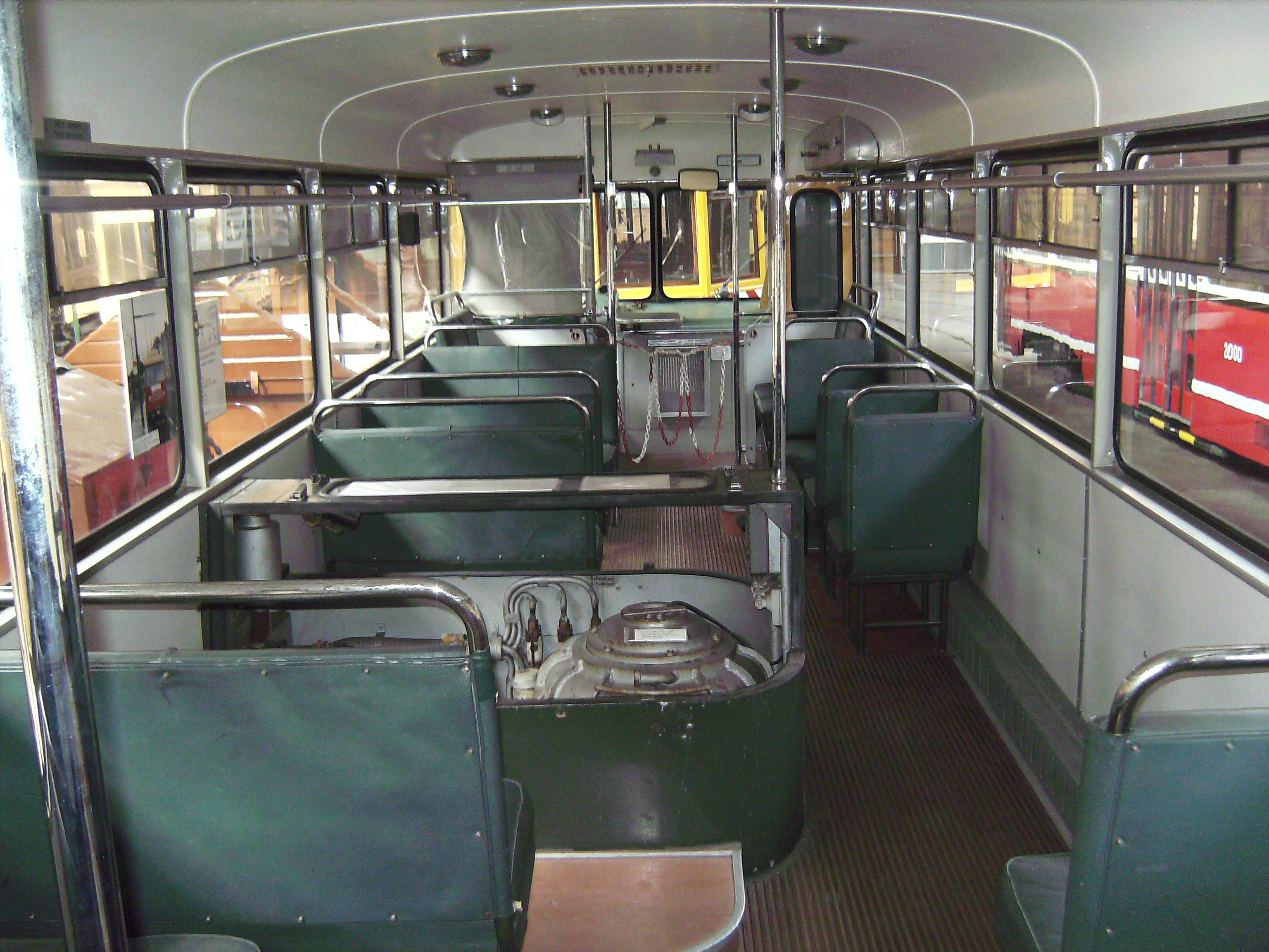 Interior of the Gyrobus G3, the only surviving gyrobus in the world (build in 1955) in the Flemish tramway and bus museum, Antwerp.